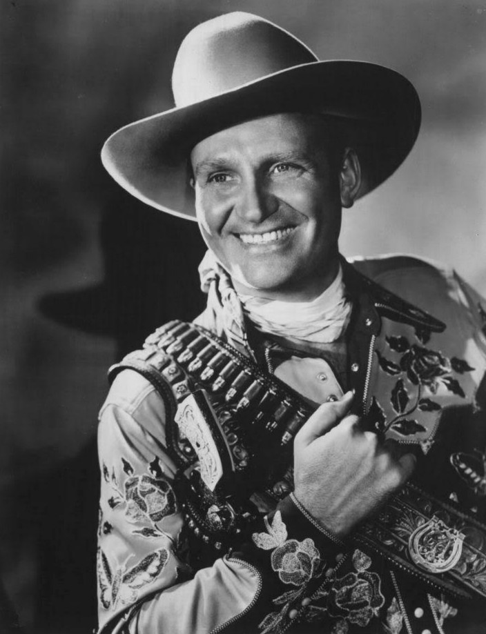 Publicity photo of Gene Autry for his appearance at a banquet to announce a contest for the Seattle Packing Company-Bar-S brand.